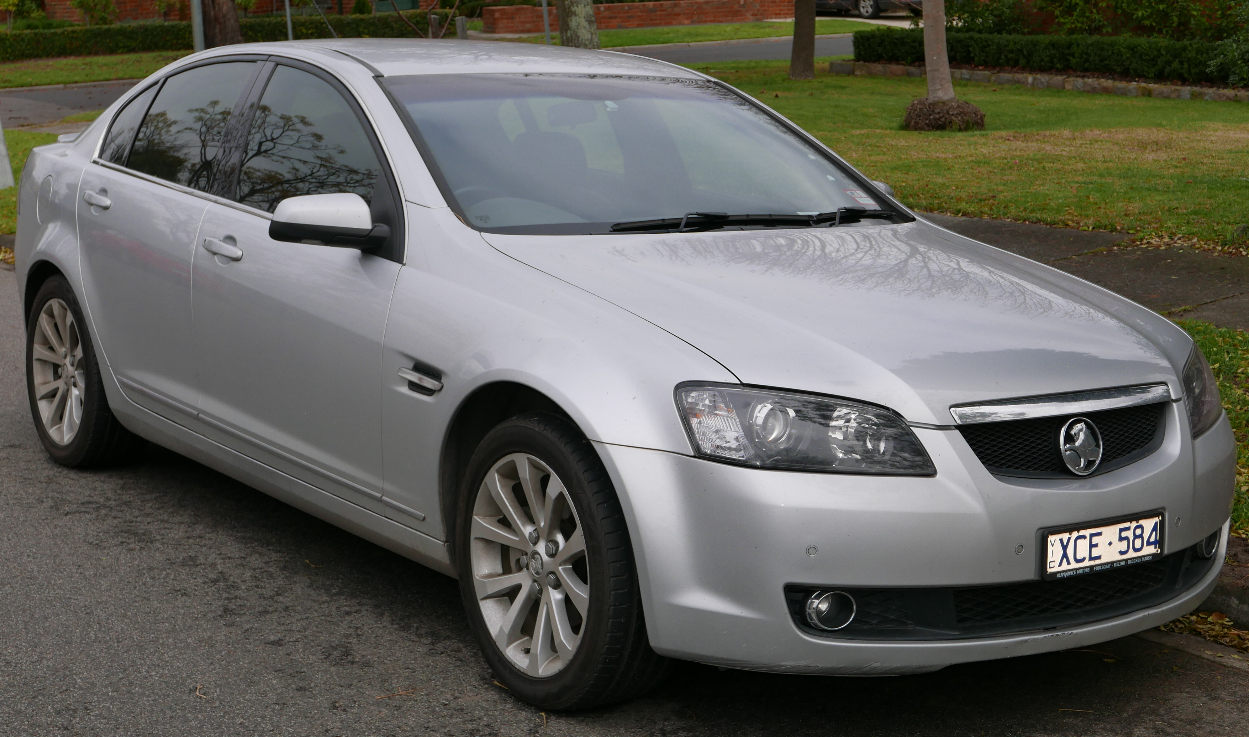 2009 Holden Calais (VE MY09.5) V sedan. Photographed in Ivanhoe, Victoria, Australia. Vehicle registration enquiry resultsJurisdictionVictoriaRegistrationXCE584Chassis code6G1EX55759L324377Engine codeLY7090500185Compliance date2009-03Year of manufacture2009